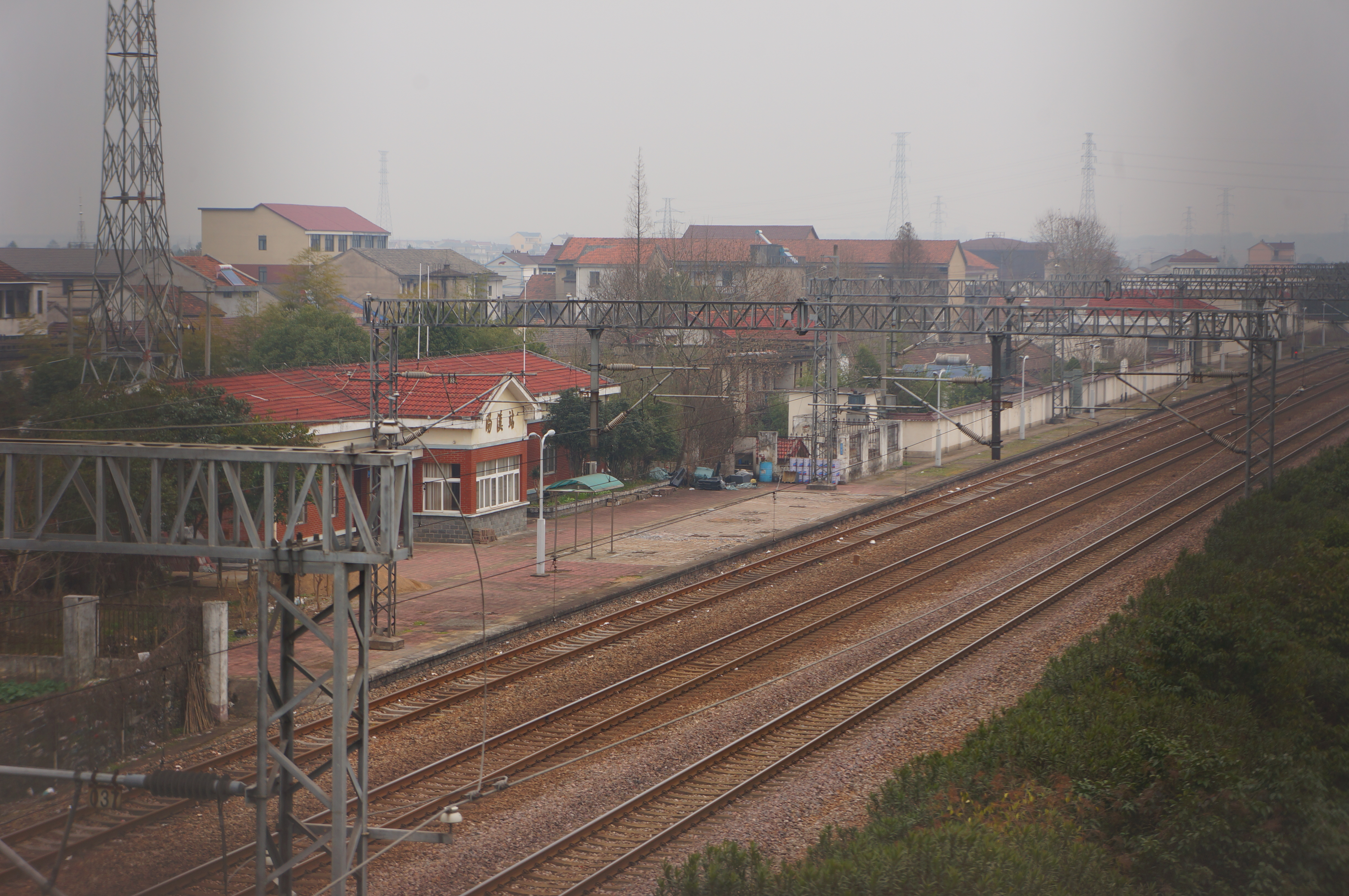 201702 Tangxi Station. Seems like there are only three tracks in the station but actually 4.